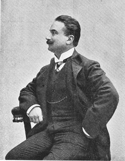 Portrait of the Italian composer Gaetano Coronaro (1852 – 1908)